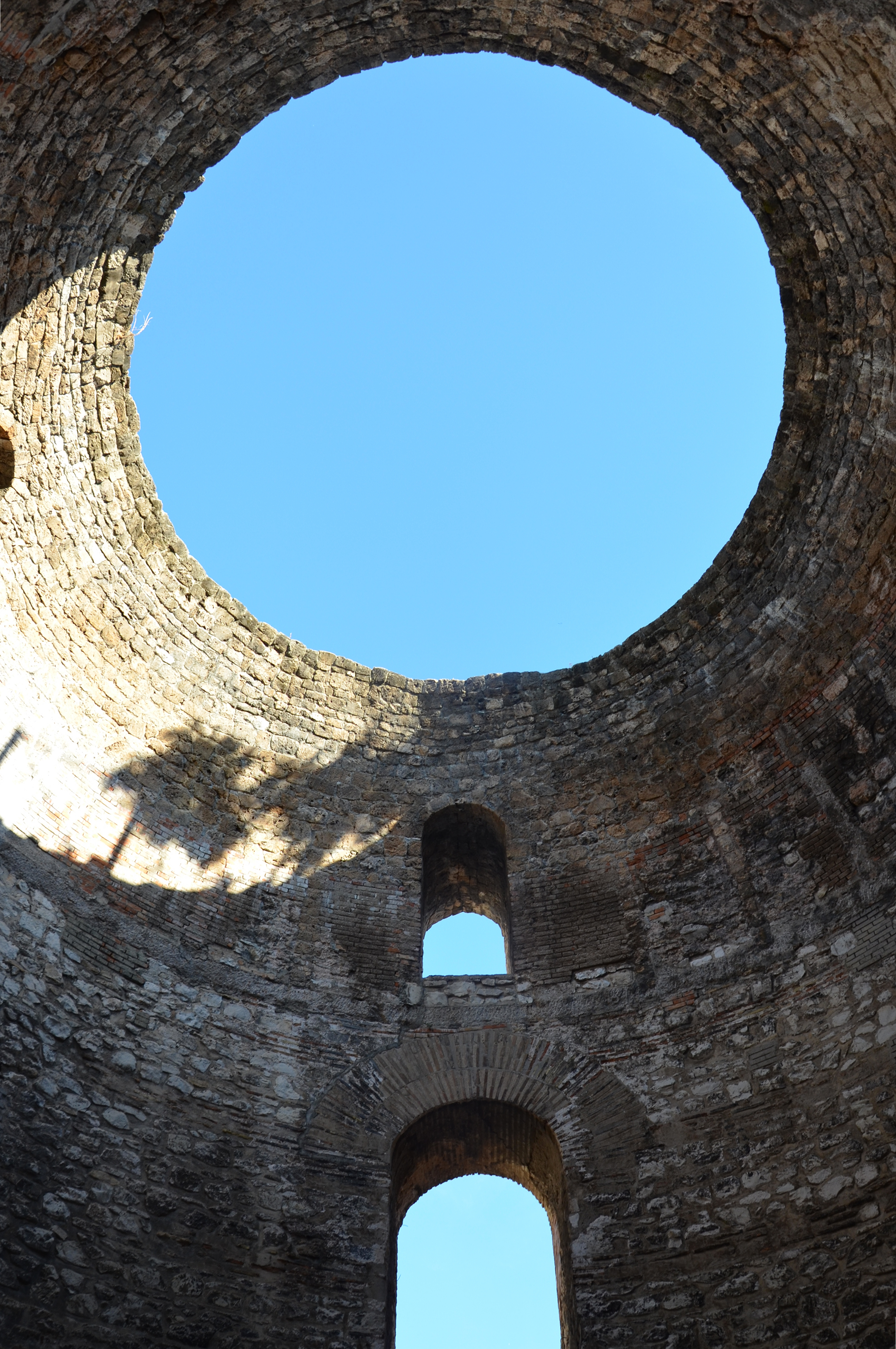 Diocletian's Palace, Split